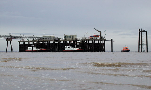 Humber Lifeboat, Spurn Point, East Riding of Yorkshire, England.The only lifeboat station in the UK with a full-time crew, seen here at low tide in early January. The first Spurn Lifeboat was established in 1810 by Hull Trinity House. Due to its remote location there have been specially built houses at Spurn for the crews and their families from 1819 to the present day. Crew members often cycle down the raised gangway from their homes to the lifeboat moorings in order to save a few precious seconds.